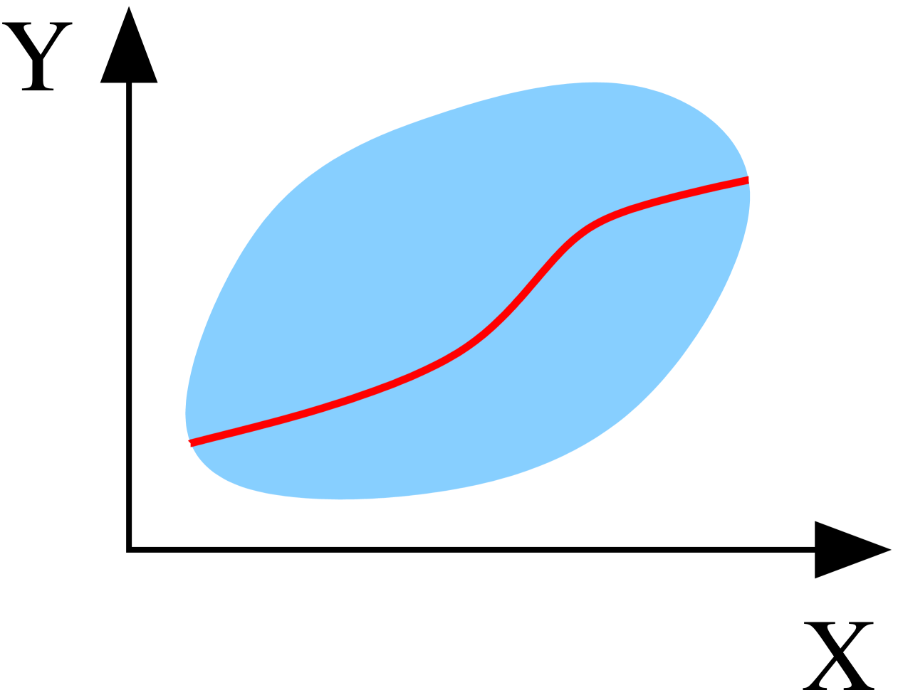 Made by myself with Xfig. Source included.